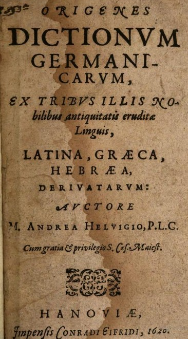 Origenes dictionum germanicarum, published in 1620